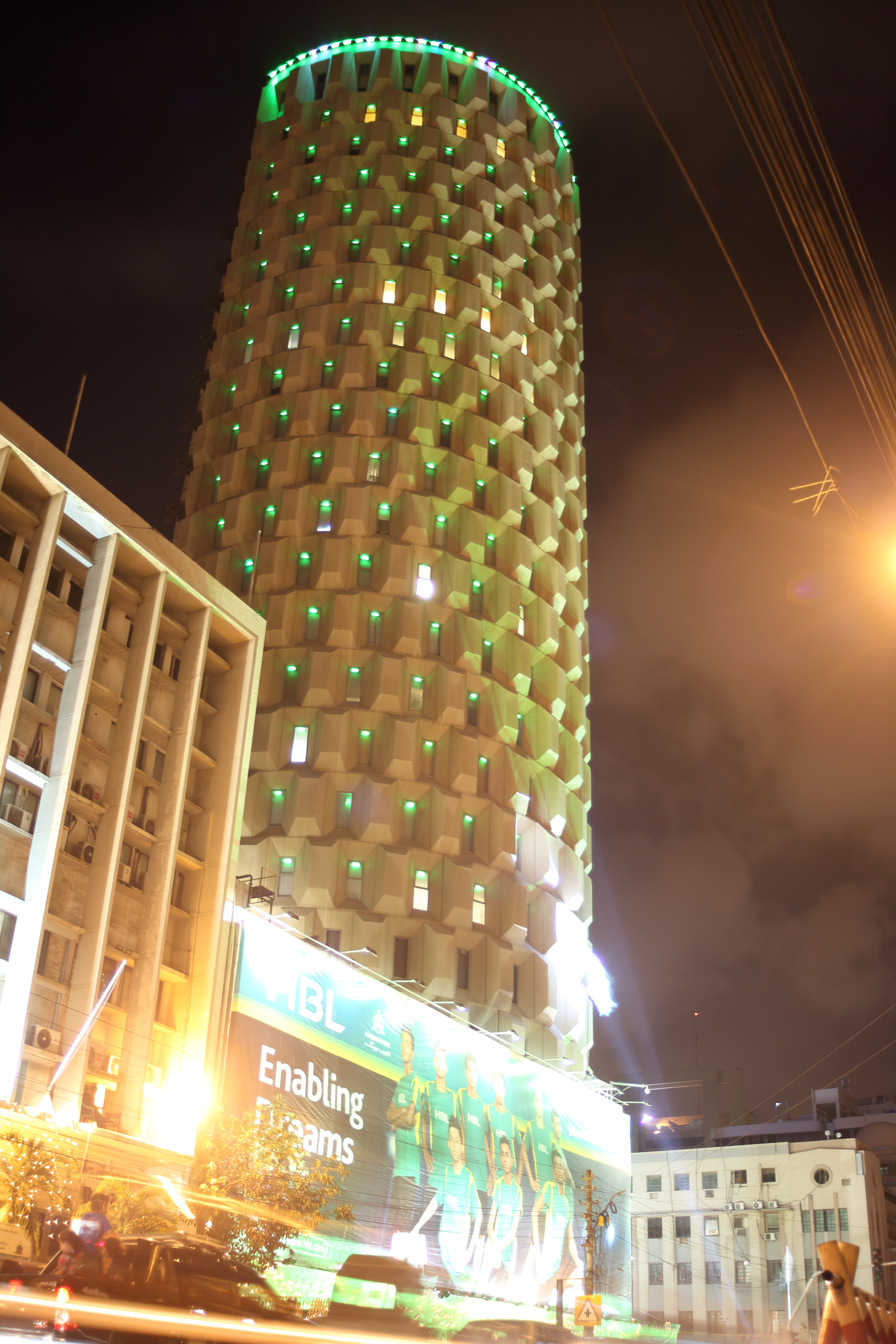 Habib Bank Limited HBL is a Karachi based multinational bank. It is the largest bank by assets in Pakistan. Founded in 1941, HBL became Pakistan's first commercial bank. In 1951 it opened its first international branch in Colombo, Sri Lanka. In 1972 the bank moved its headquarters to the Habib Bank Plaza, which became the tallest building in South Asia at the time. The Government nationalised the bank in 1974 and privatized it in 2003; at that time the Aga Khan Fund for Economic Development acquired a controlling share. As of 2016, HBL has more than 1700 branches with presence in over 25 countries spanning across four continents. It is the largest company in Pakistan in terms of assets, and has repeatedly ranked top Pakistani company in the Forbes Global 2000. In February 2018, HBL appointed senior banker, Muhammad Aurangzeb (formerly CEO Global Corporate Bank - Asia Pacific at JP Morgan) as its President & CEO following early retirement of Nauman K. Dar on December 31, 2017. This is a photo of a monument in Pakistan identified as the SD-P-144